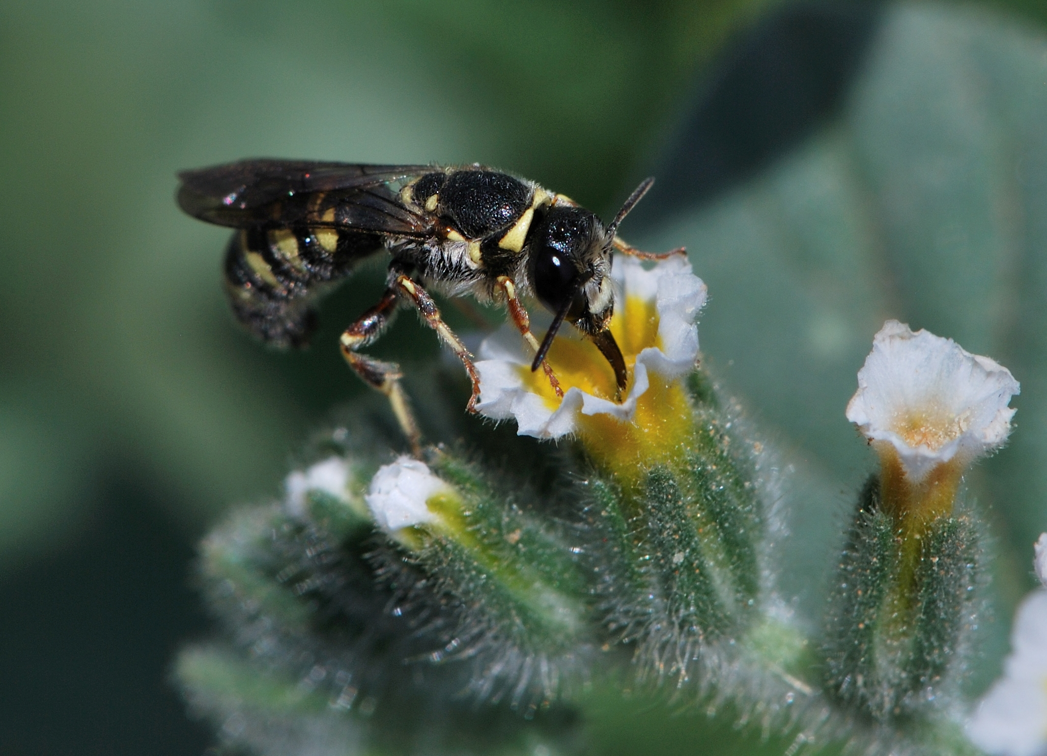 Ochreriades fasciatus, male foraging on Heliotropium, Sha'alvim, Judean Foothills, Israel, May 28 2011.